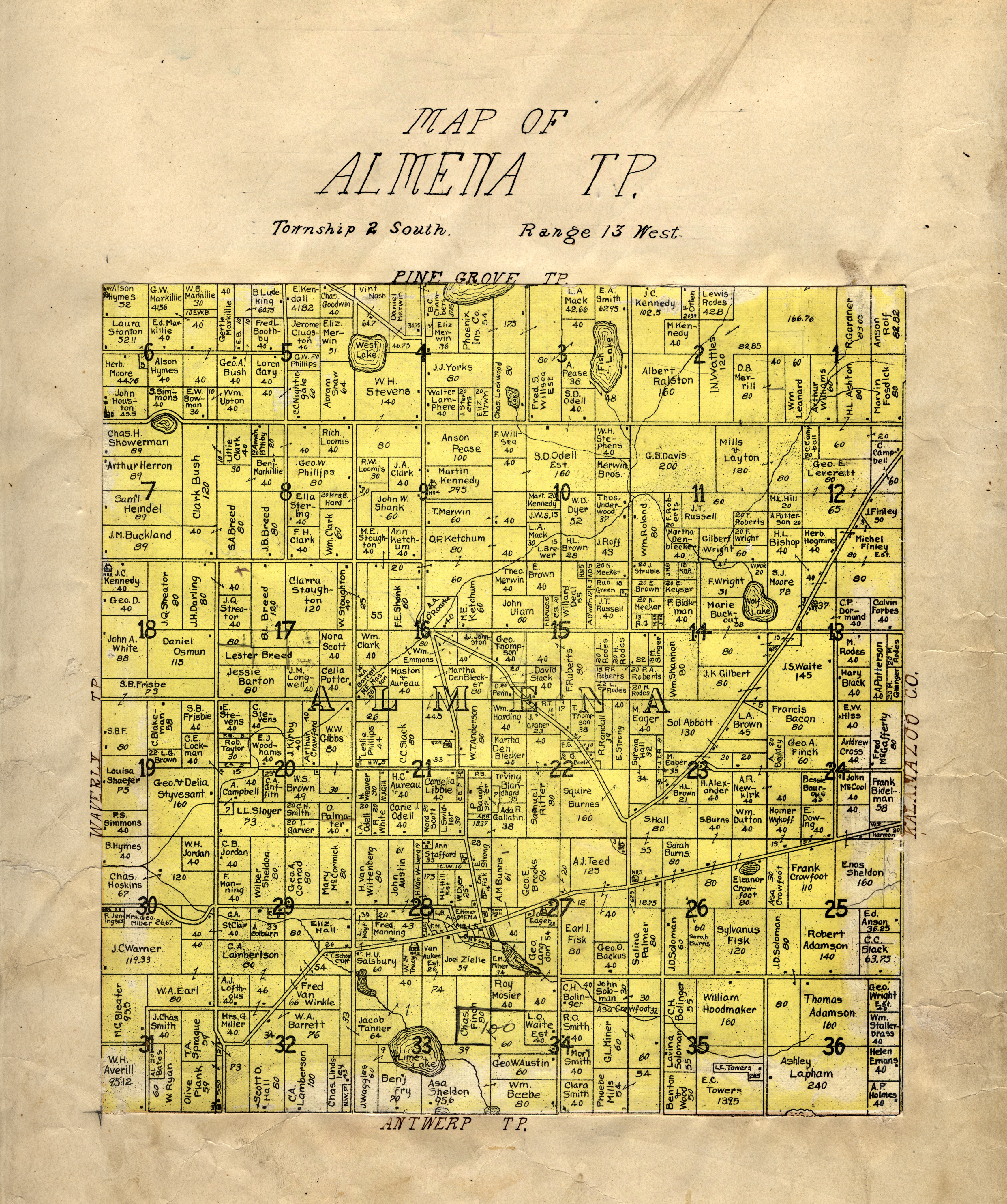 Digital scan of the Almena Township portion of a larger 1906 map of Van Buren County, Michigan. The county map was cut into township-sized pieces, and the pieces were later found pasted into an 1895 atlas of Van Buren County, now in the collection of the Michigan State University Map Library. Each township map cut from the 1906 county map was pasted onto a blank page opposite the map of the corresponding township in the 1895 county atlas. Shows parcel boundaries and names of property owners, Public Land Survey System township and section numbering, roads, railroads, residences, schools, churches, municipalities, and water features. Print version was cut from map: Orton, M. K. A farm map of Vanburen County, Michigan / compiled from official records and local inspection by W.H. Goss, County Surveyor ; drawn by M.K. Orton. Rockford, Ill. : W.W. Hixson, [1906]. MSU Libraries catalog record